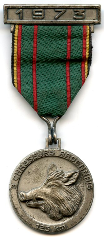 Commemorative Medal for the "European March of Rememberance and Friendship" (Belgium)